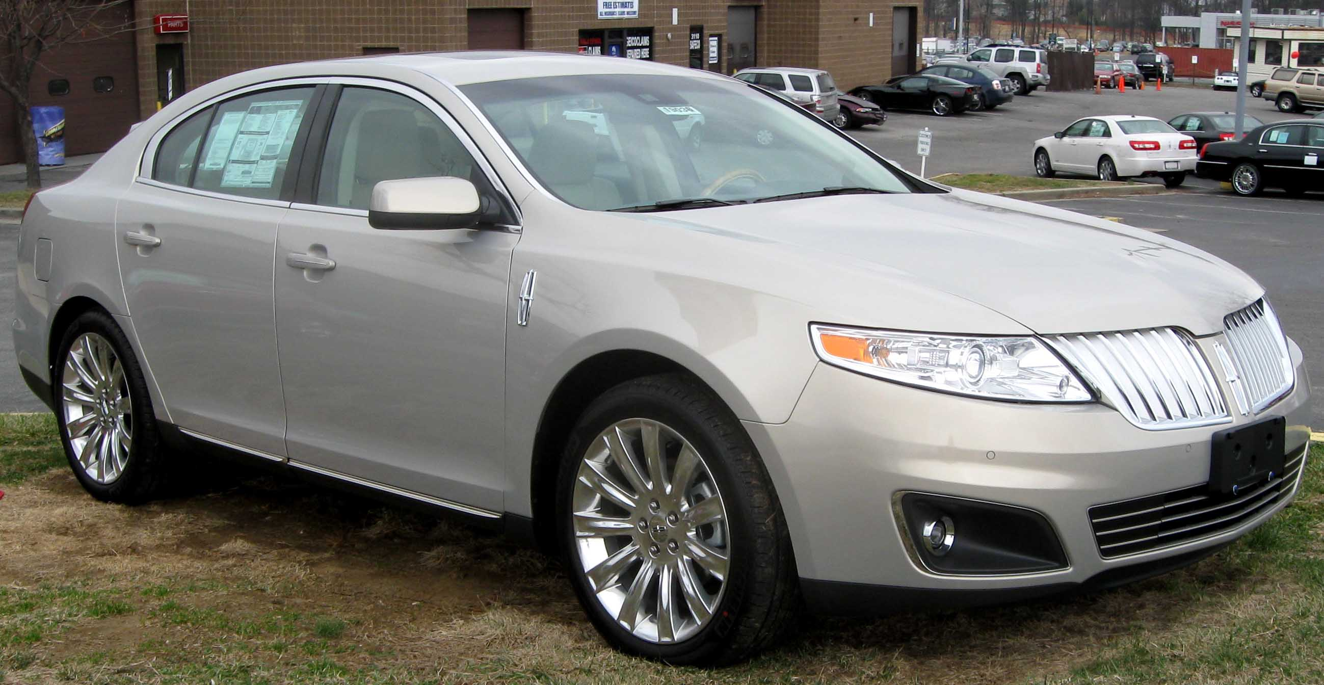 2009 Lincoln MKS photographed in Silver Spring, Maryland, USA.